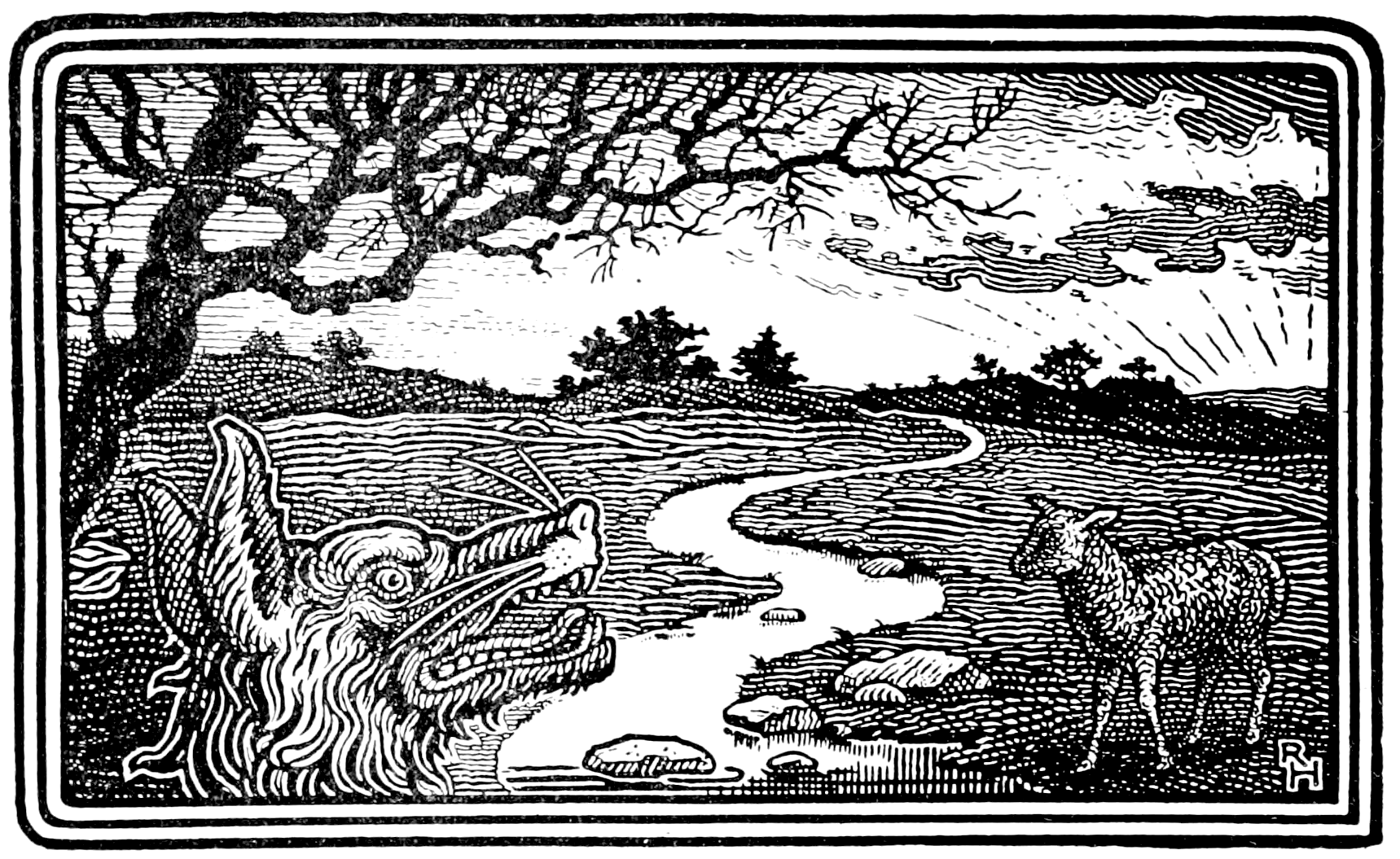 Collection of fables with illustrations.